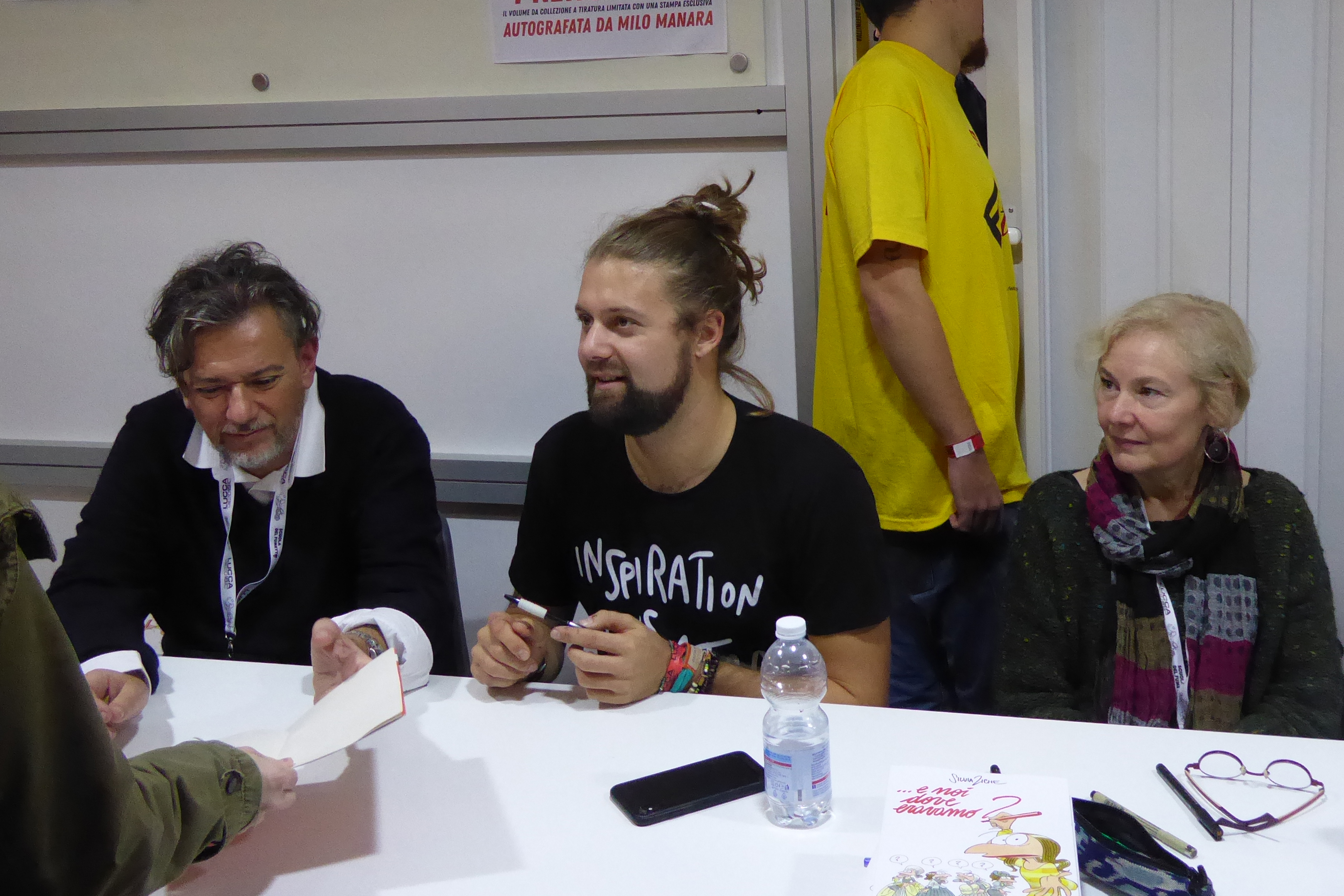 Tito Faraci, Sio and Silvia Ziche at Lucca Comics & Games 2018